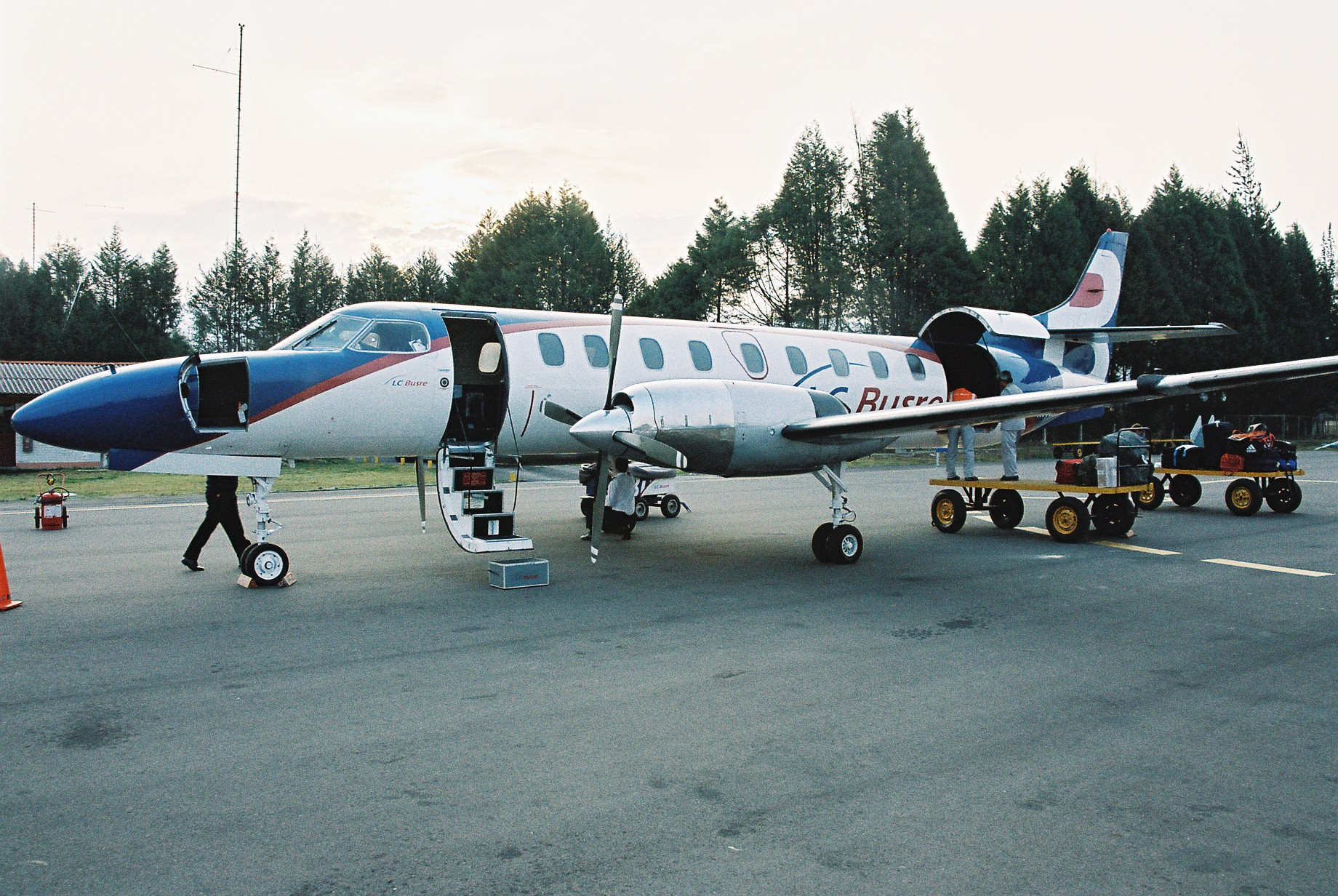 One of LC Busre's Fairchild Metro III Aircraft at Jorge Chavez International Airport